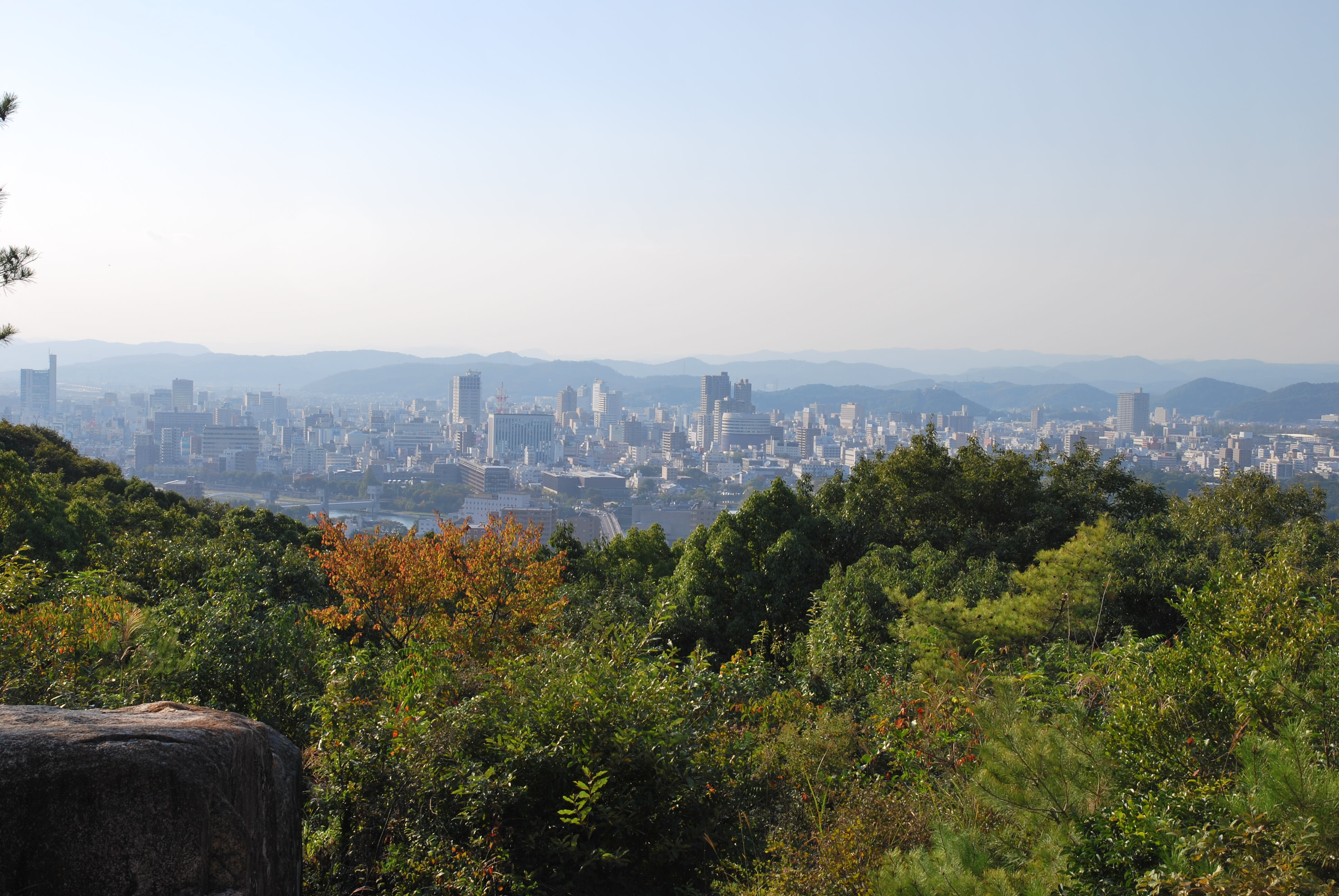 Okayama city view from Sankunjinja remains